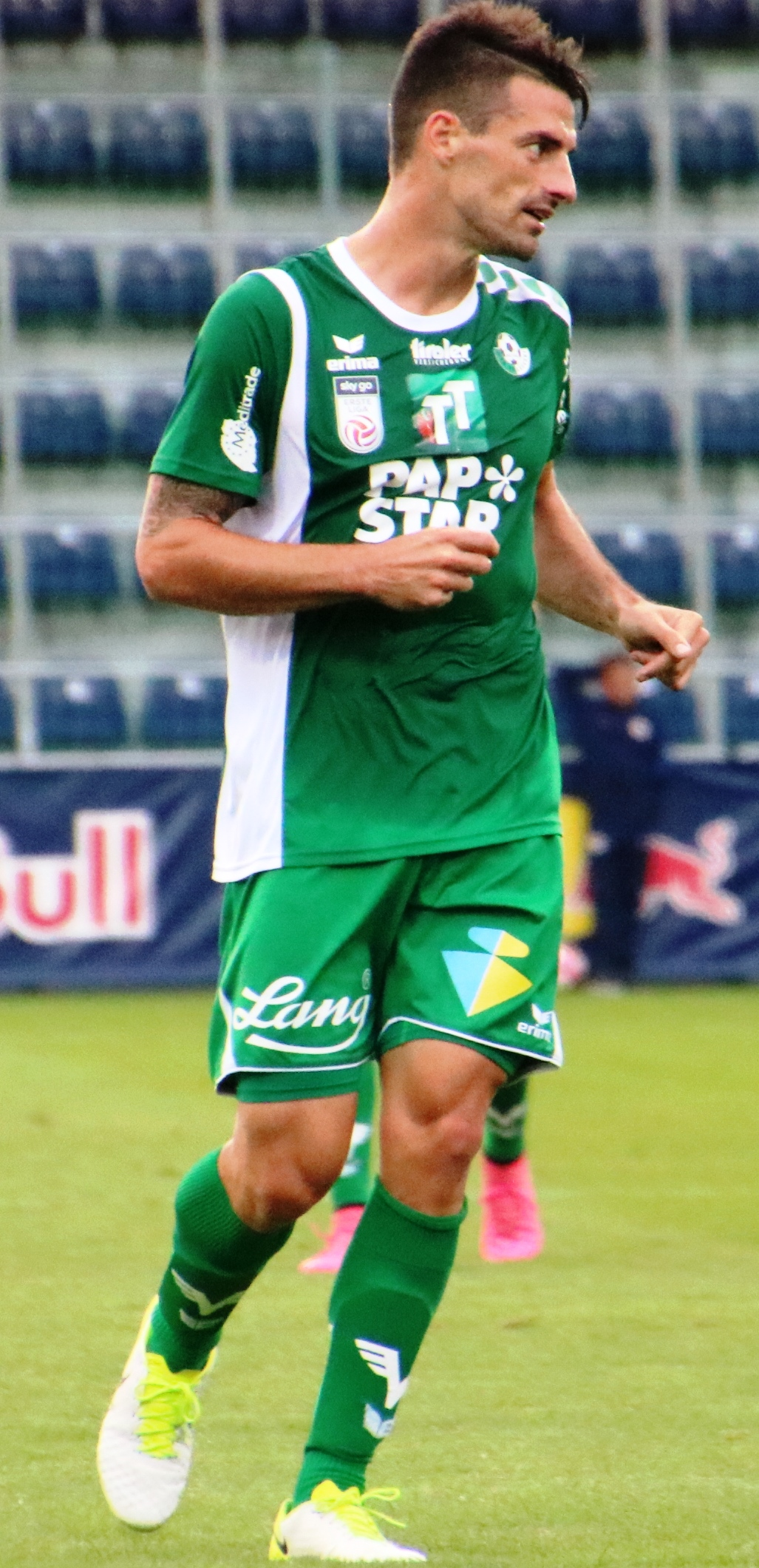 league match Austria 2nd league